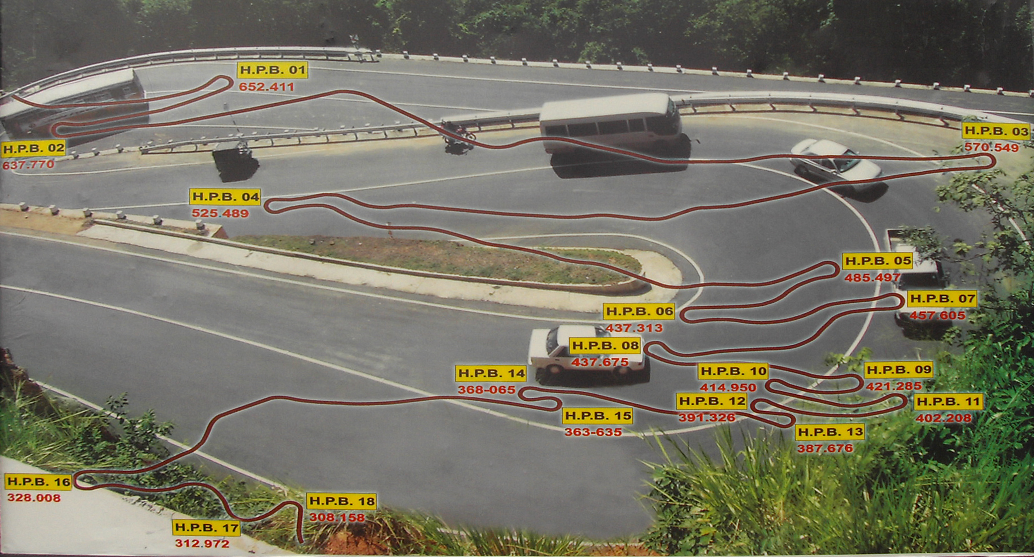 18 Hairpin Bends "Daha Ata Wanguwa" on Kandy Mahiyangana road, Sri Lanka.